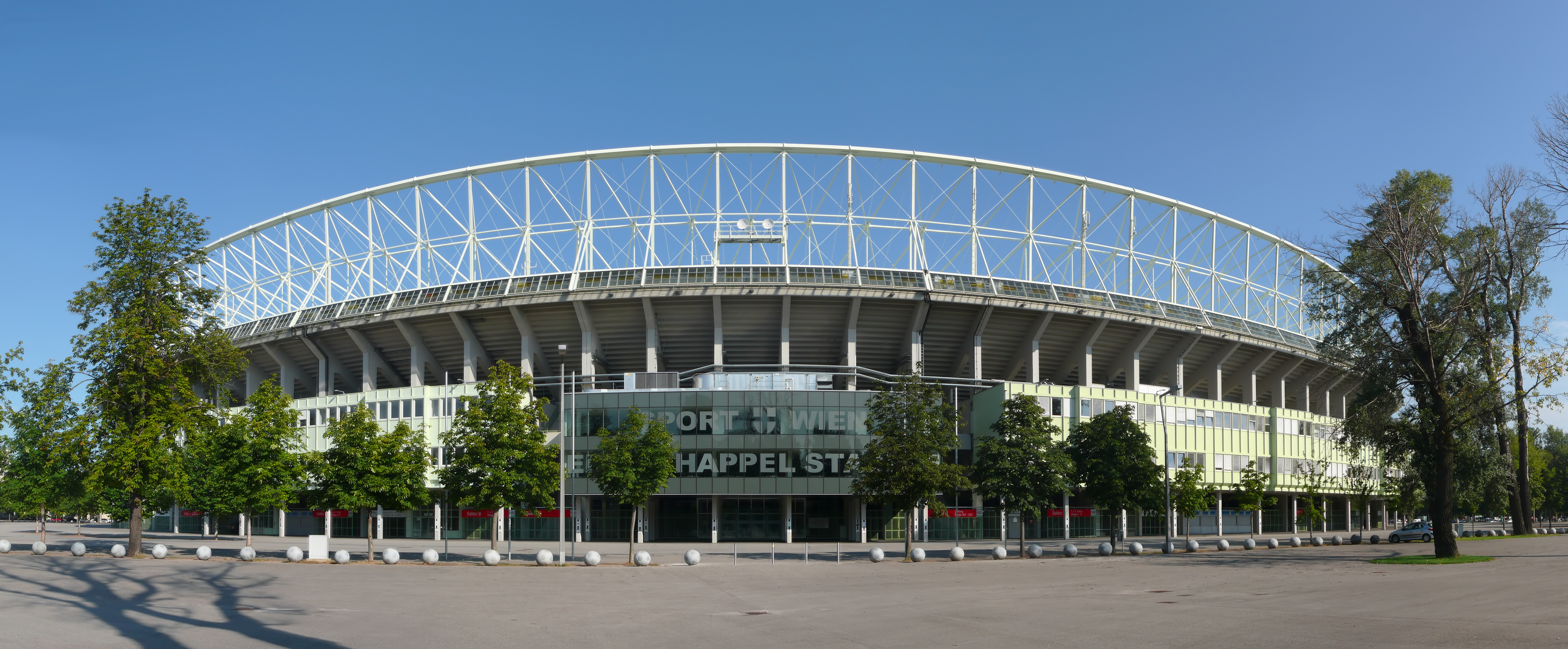 Stadium Ernst-Happel-Stadion in Vienna Leopoldstadt